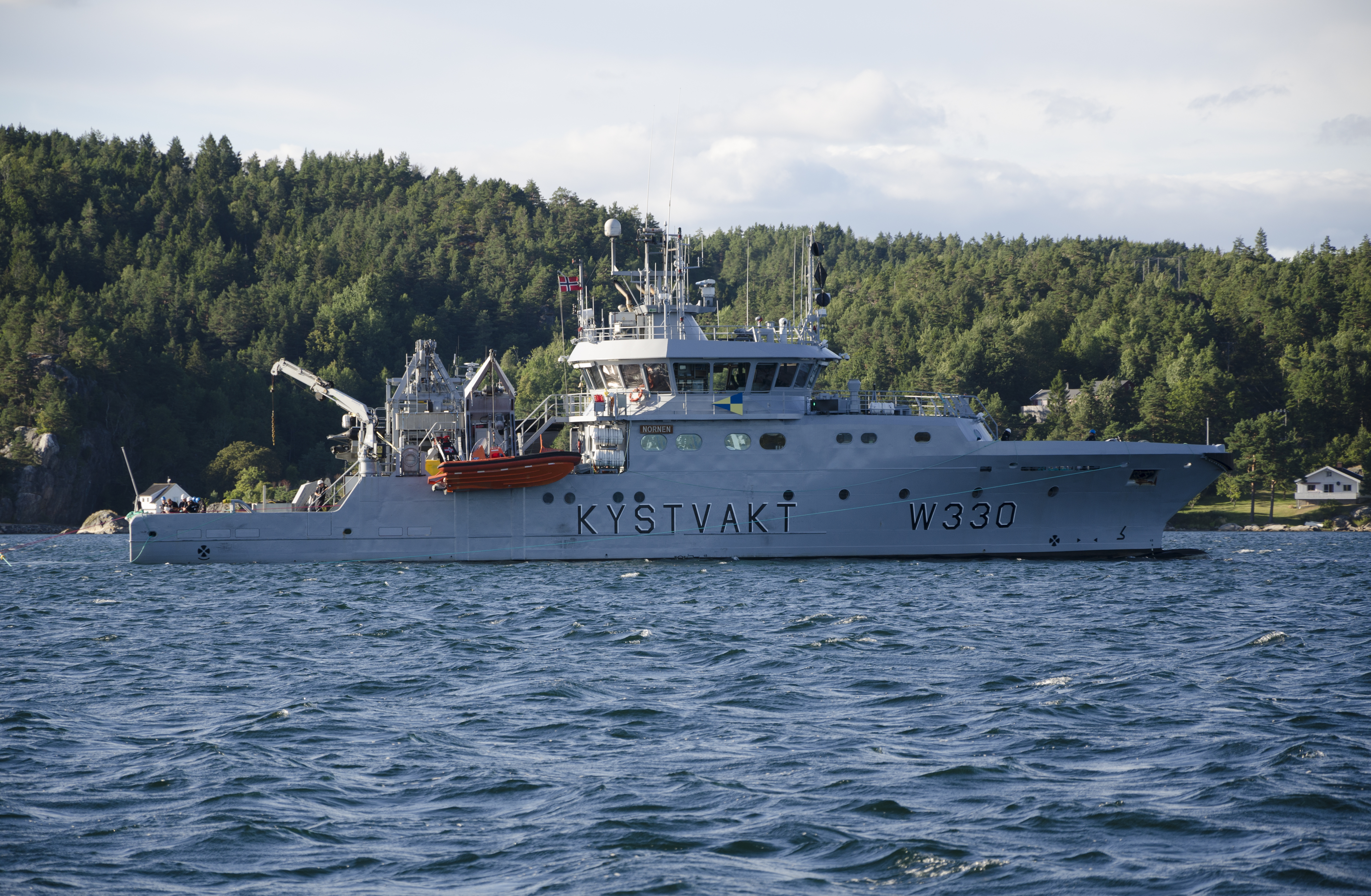 Norwegian coast guard vessel «Nornen» in Risør in august 2017. Information about the vessel may be found at IMO 9353321.A ship can change name and flag state through time, but the IMO number remains the same through the hull's entire lifetime. As a result, it can be useful to identify a ship by using the IMO number.